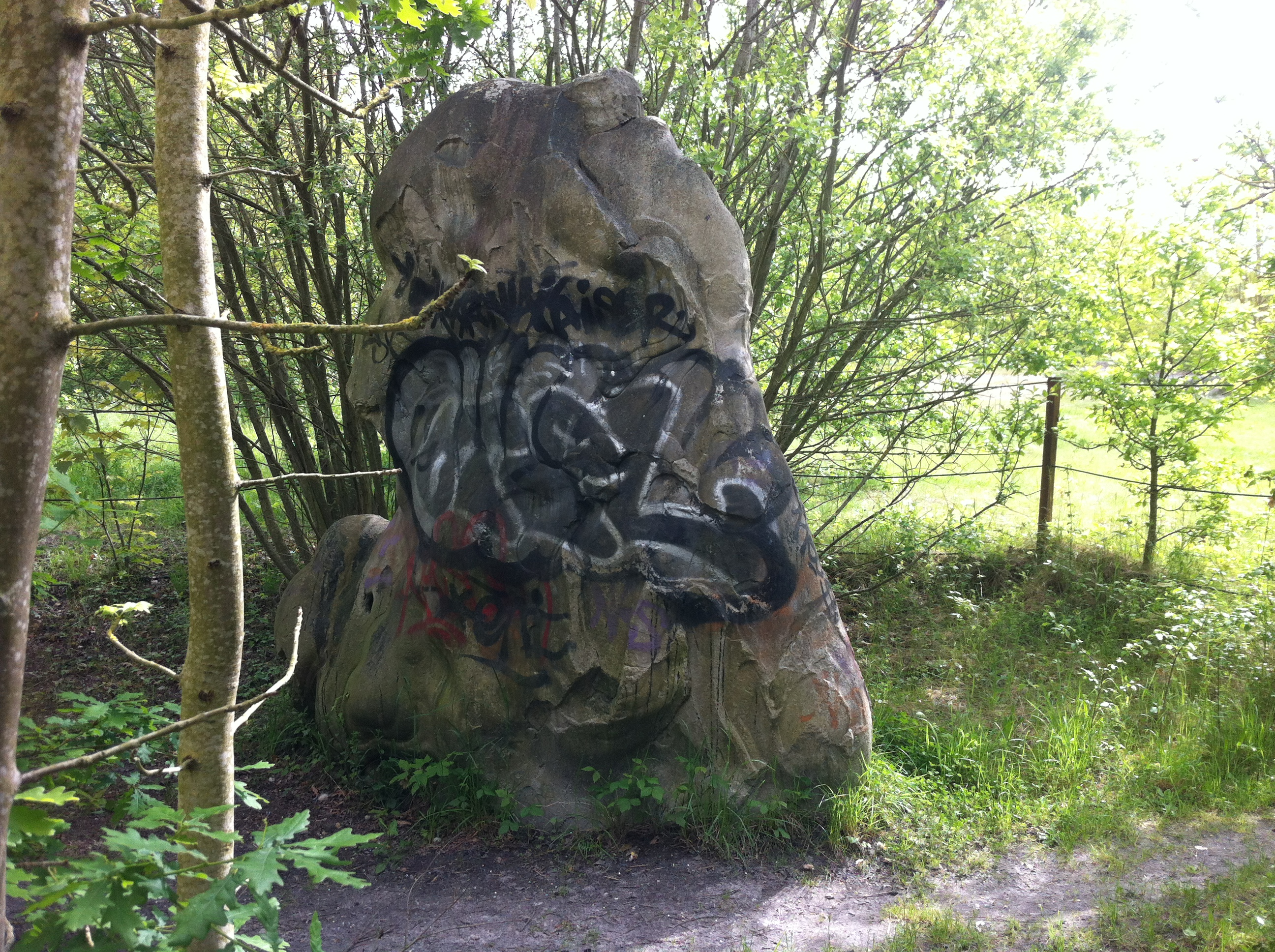 Megalithic monument also called Le Menhir de la Mere aux Cailles